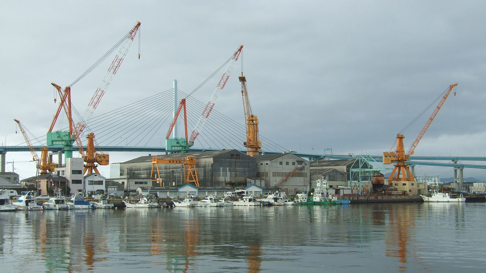 FUKUOKA SHIPBUILDING Fukuoka Yard, Chuo Ward, Fukuoka City, Fukuoka, Japan